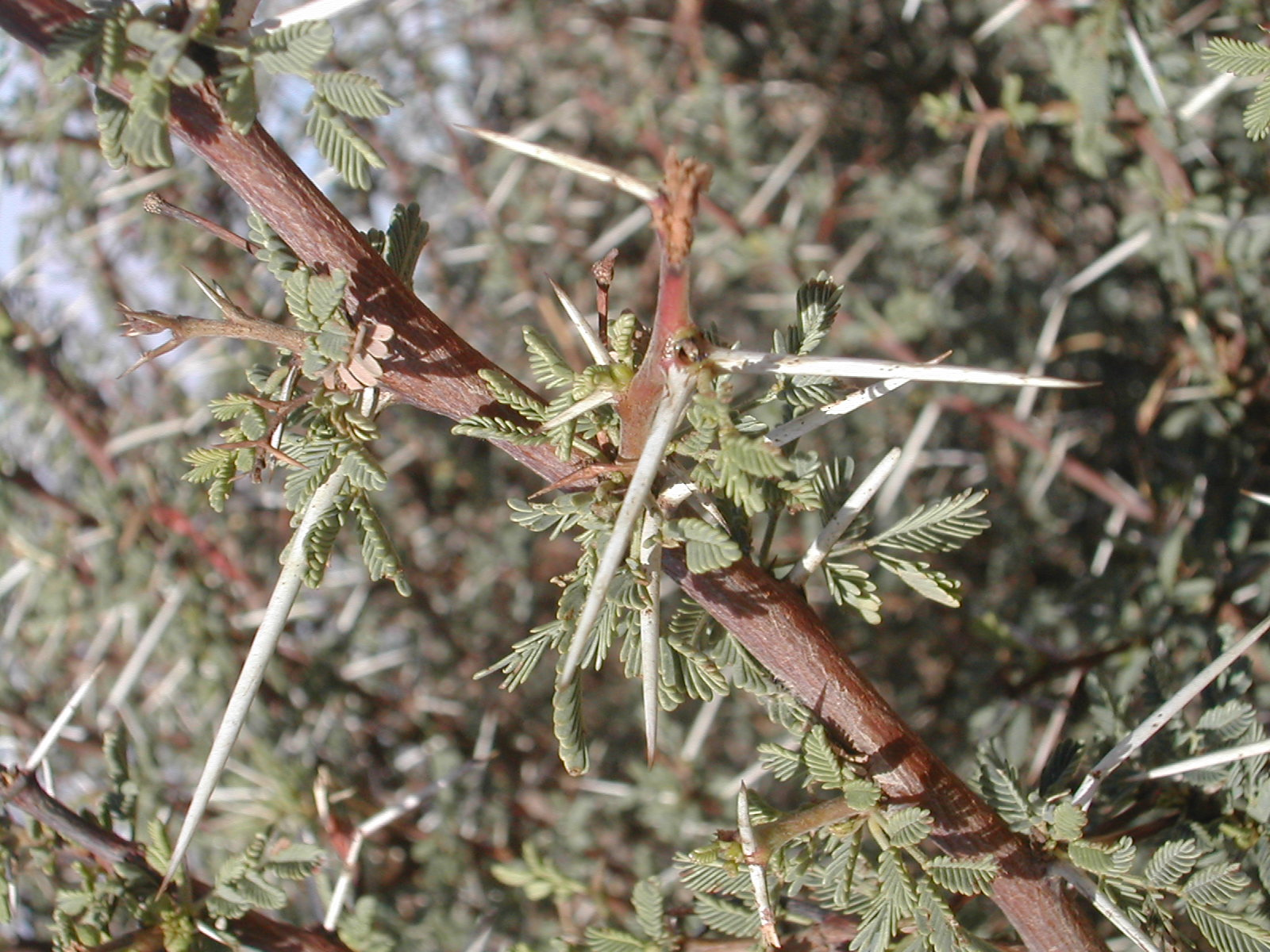 Sweet thorn in southern Algeria